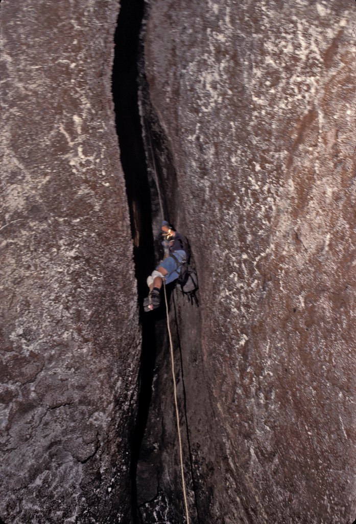 This image was taken during exploration of an open vertical volcanic conduit on Hualalai Volcano in Hawaii. It is in the floor of a volcanic vent known as Puhia Pelee